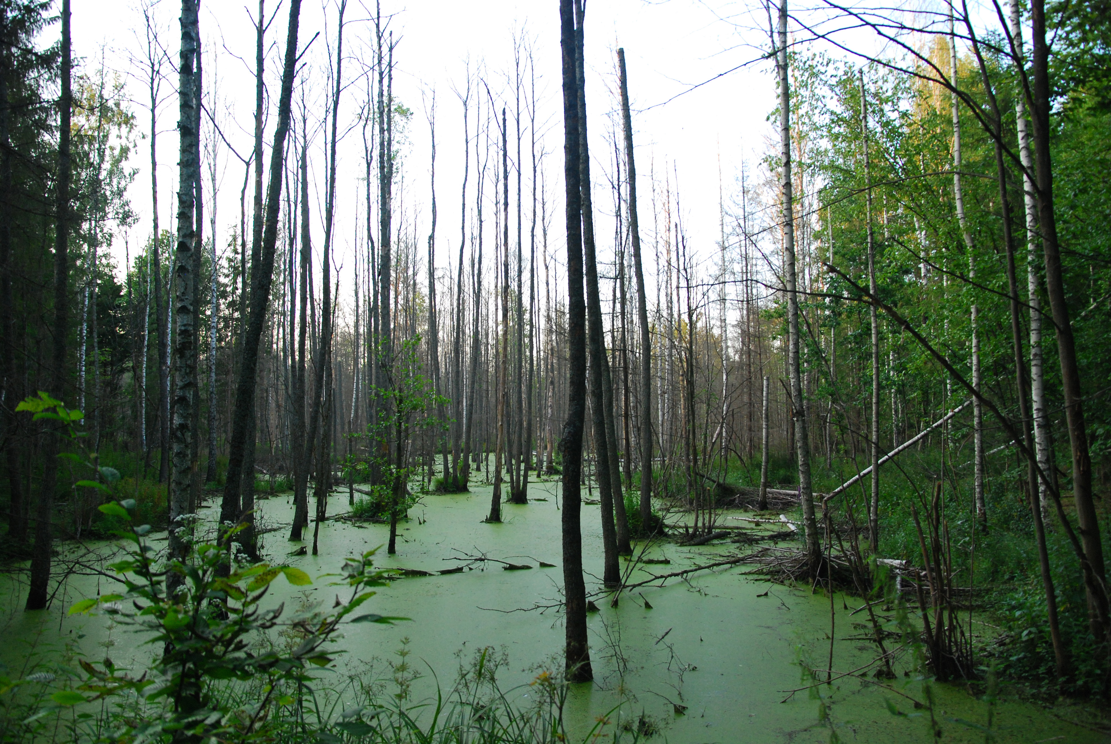 This photo from Podlaskie Voievodeship was taken during Polish Wikiexpedition 2009 set up by Wikimedia Polska Association. The making of this document was supported by Wikimedia Polska. Białowieski National Park Landscape